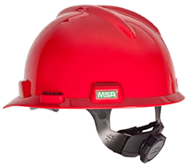 Protective helmet